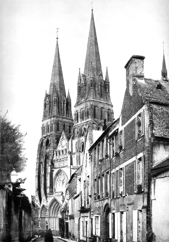 Bayeux cathedral